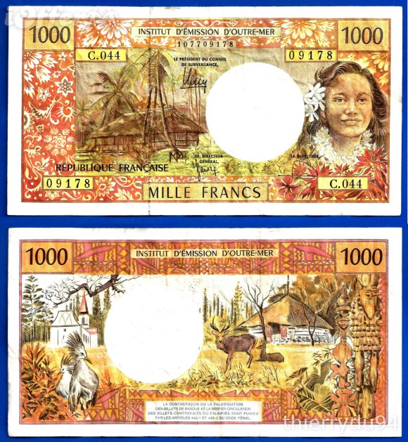 5000 pacific francs bill